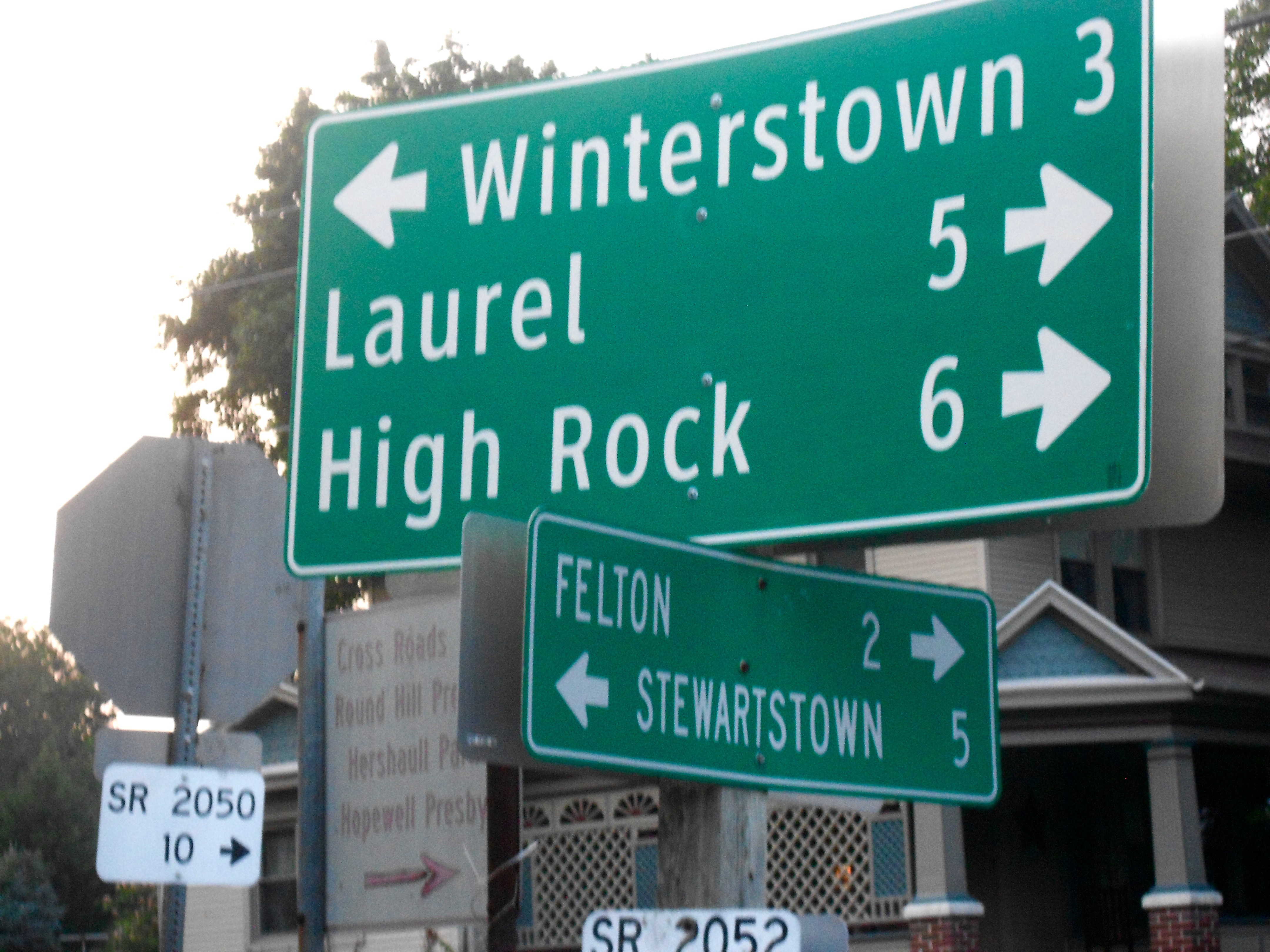 Signs at the crossroads in the borough of Crossroads, York County, Pennsylvania